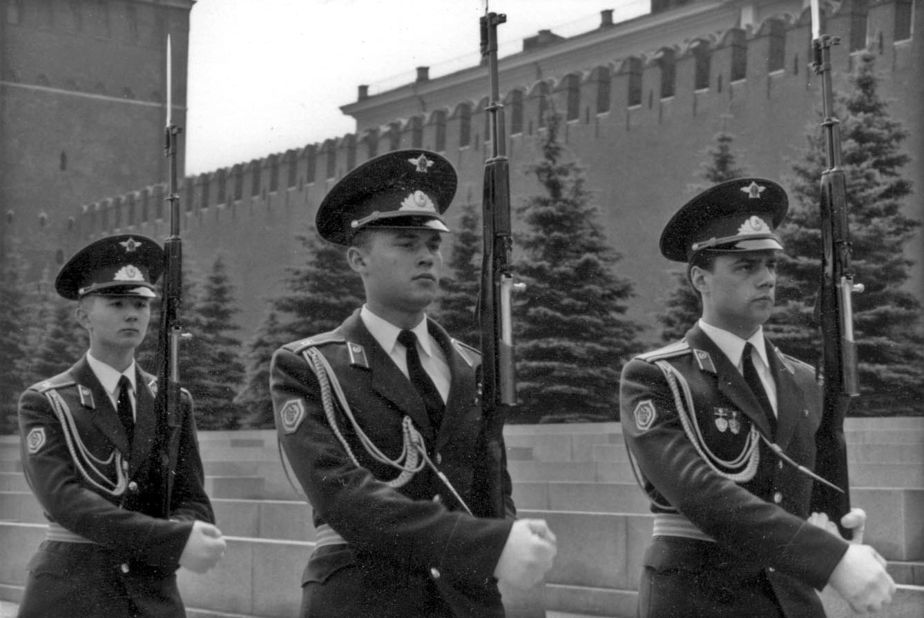 Soviet Union, 1988 Changing of the guard, Red Square